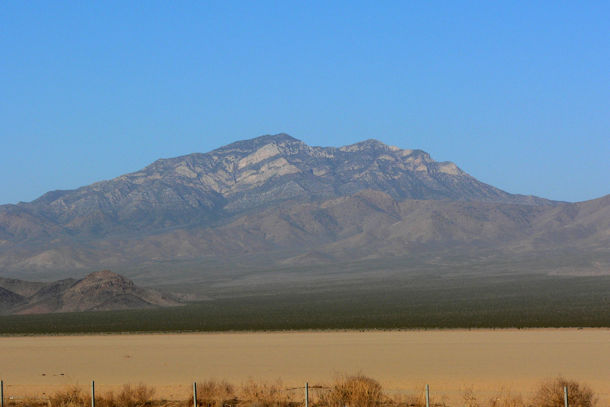 Clark Mountain seen from I-15 crossing Ivanpah Dry Lake, California